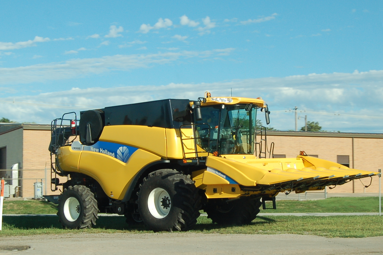 New Holland CR9060 combine harvester with a corn picker header, Beatrice, Nebraska, USA